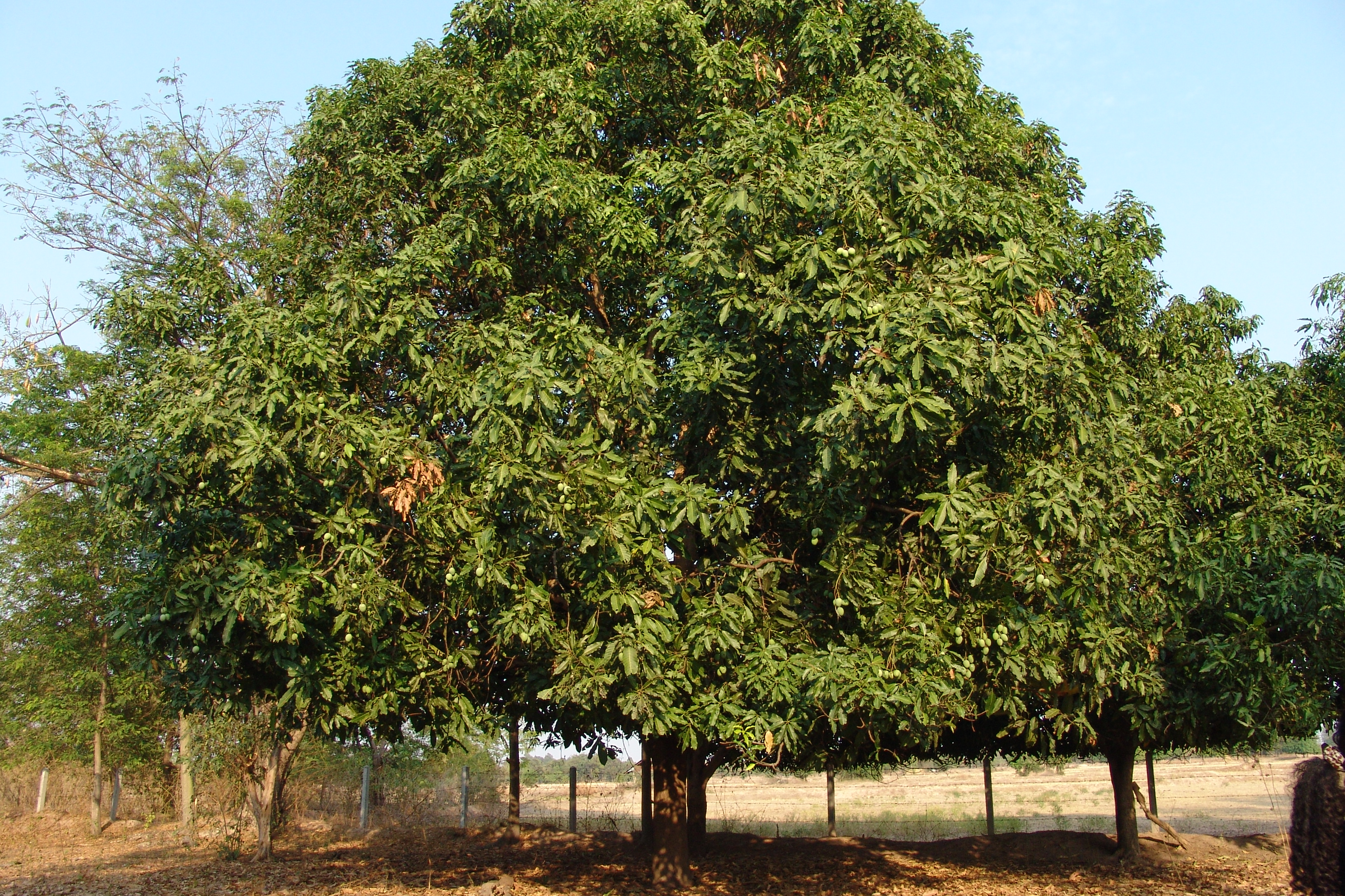 underneath the Mango tree, my honey and me... April 2005, own tree, own work